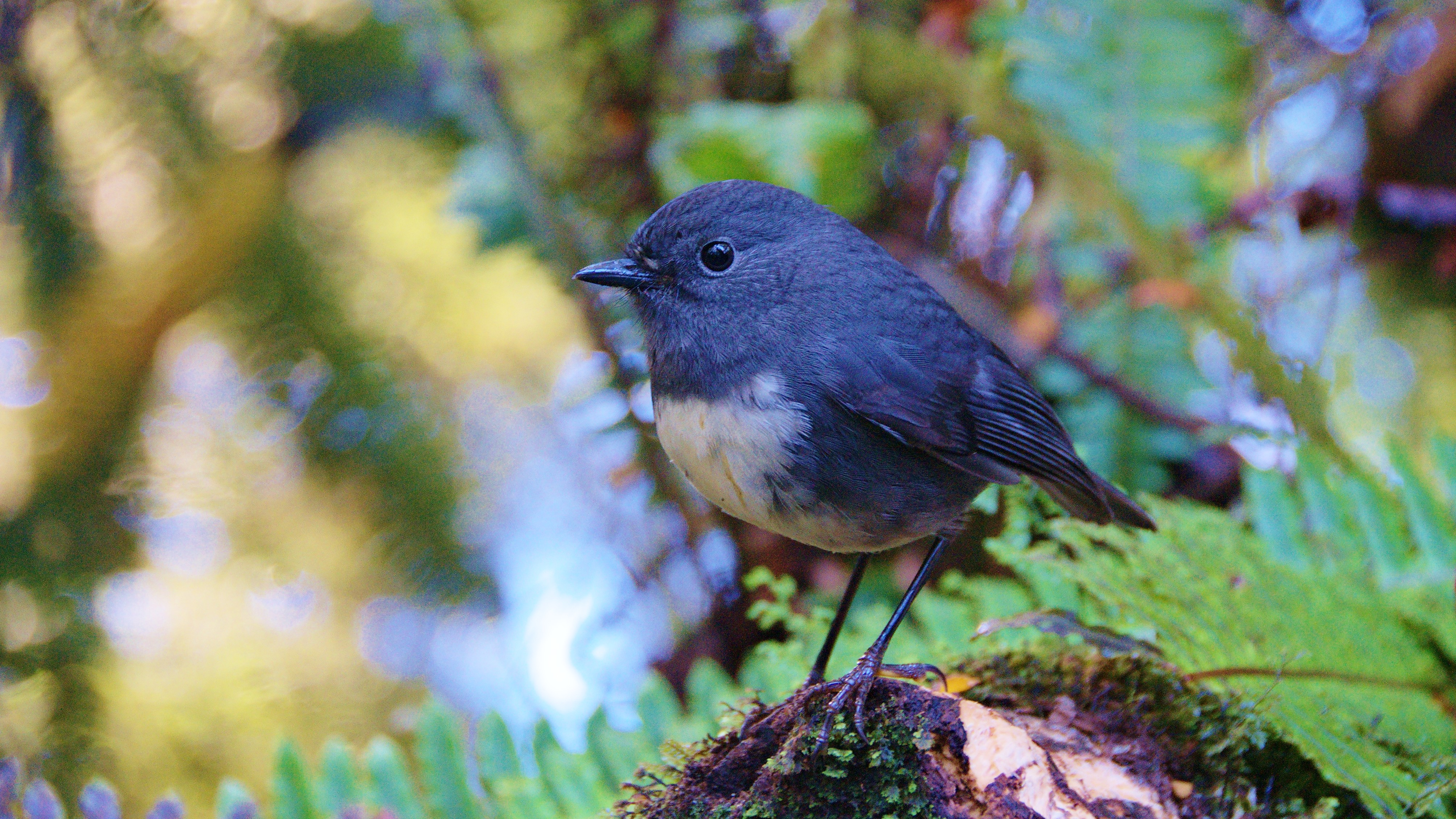 A New Zealand Robin near the Tuatapere Hump Track, Southland District, South Island, New Zealand. This subspecies is also called the South Island Robin.